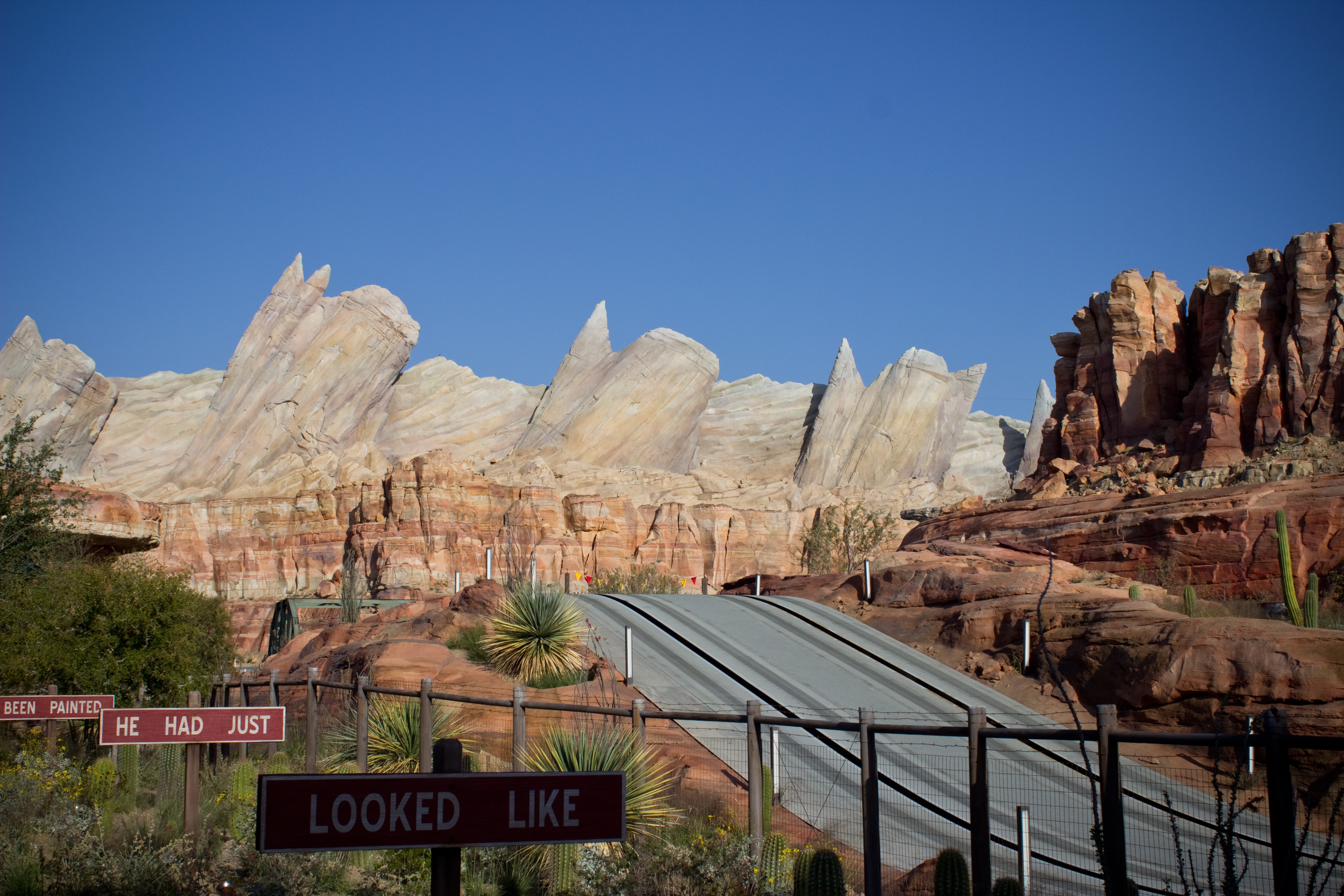 The gorgeous and amazingly detailed Radiator Springs in Cars Land at Disney California Adventure.